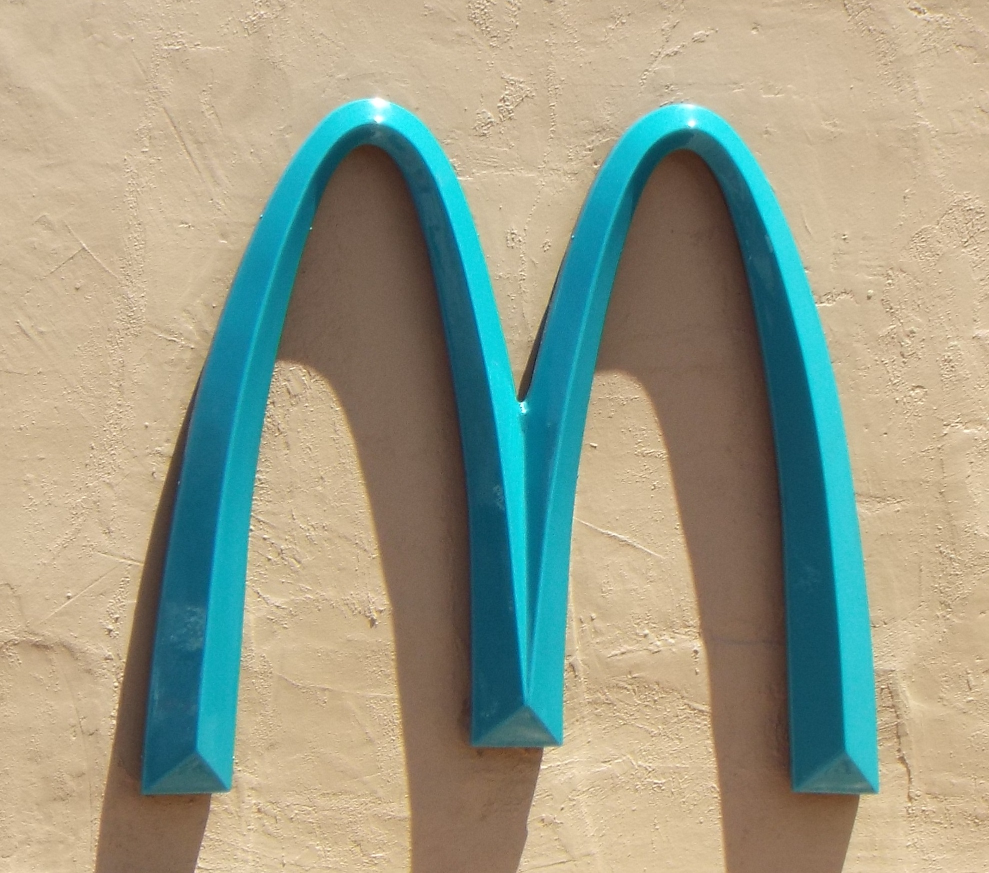 Turquoise arch in Sedona, Az